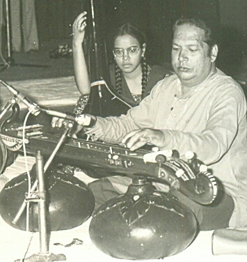 Late Brahm Sarup Singh is Famous Vichitra Veena Player in India.